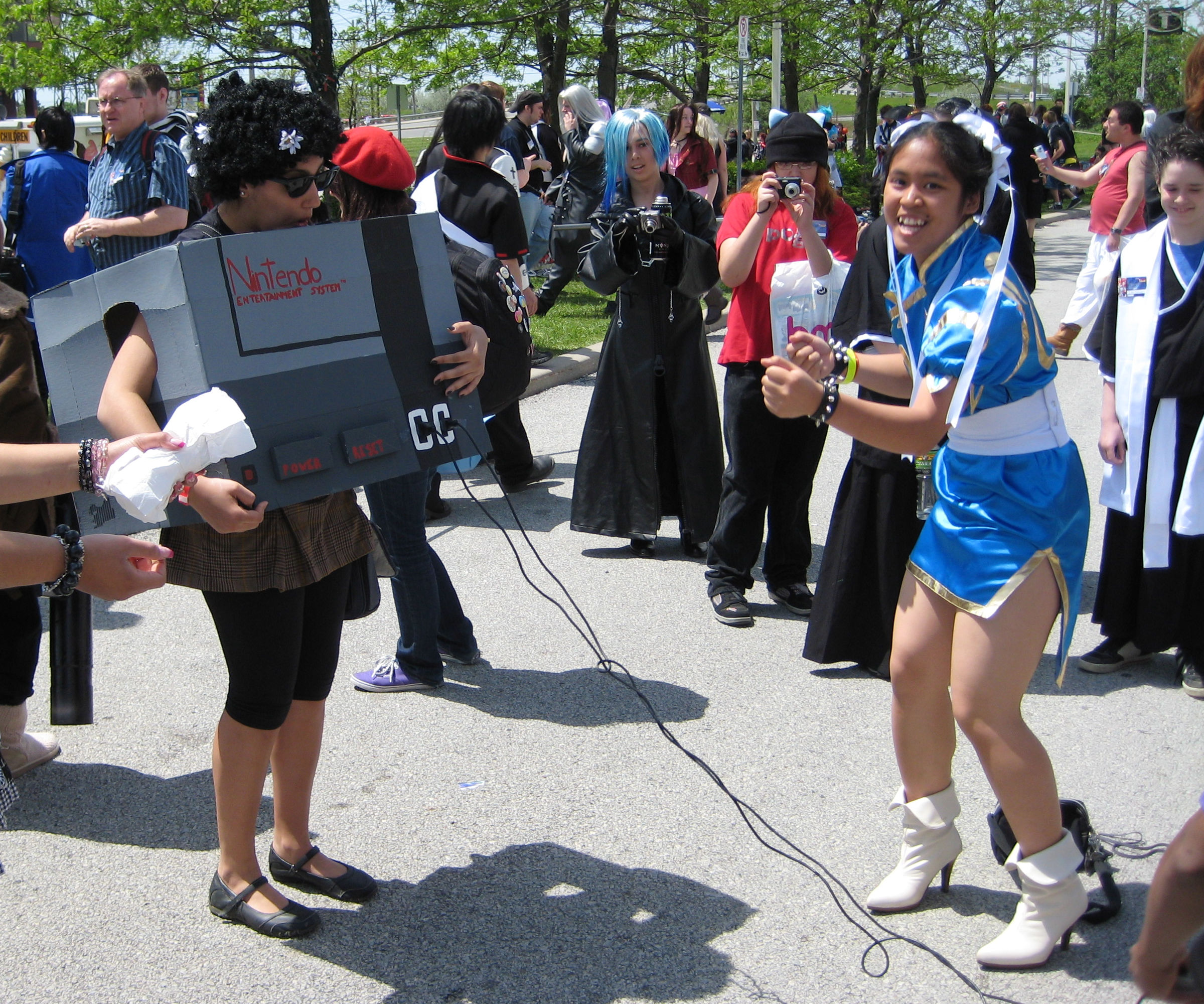 Cosplayers of Nintendo Entertainment System and Chun-Li at Anime North 2009 outside the Toronto Congress Centre.